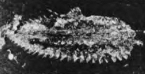 Phyllograptus ilicifolius